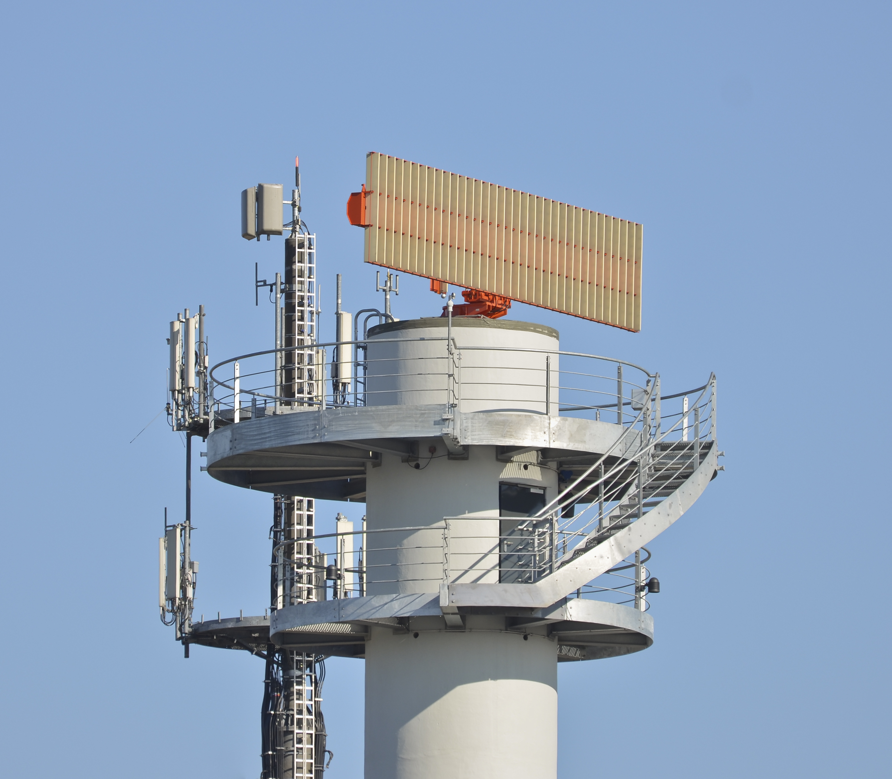 Radar and cell tower at the Frankfurt airport (Fraport)